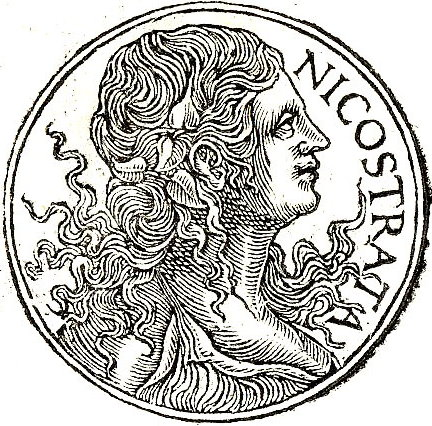 In Roman mythology, Carmenta was the goddess of childbirth and prophecy, associated with technological innovation as well as the protection of mothers and children, and a patron of midwives.